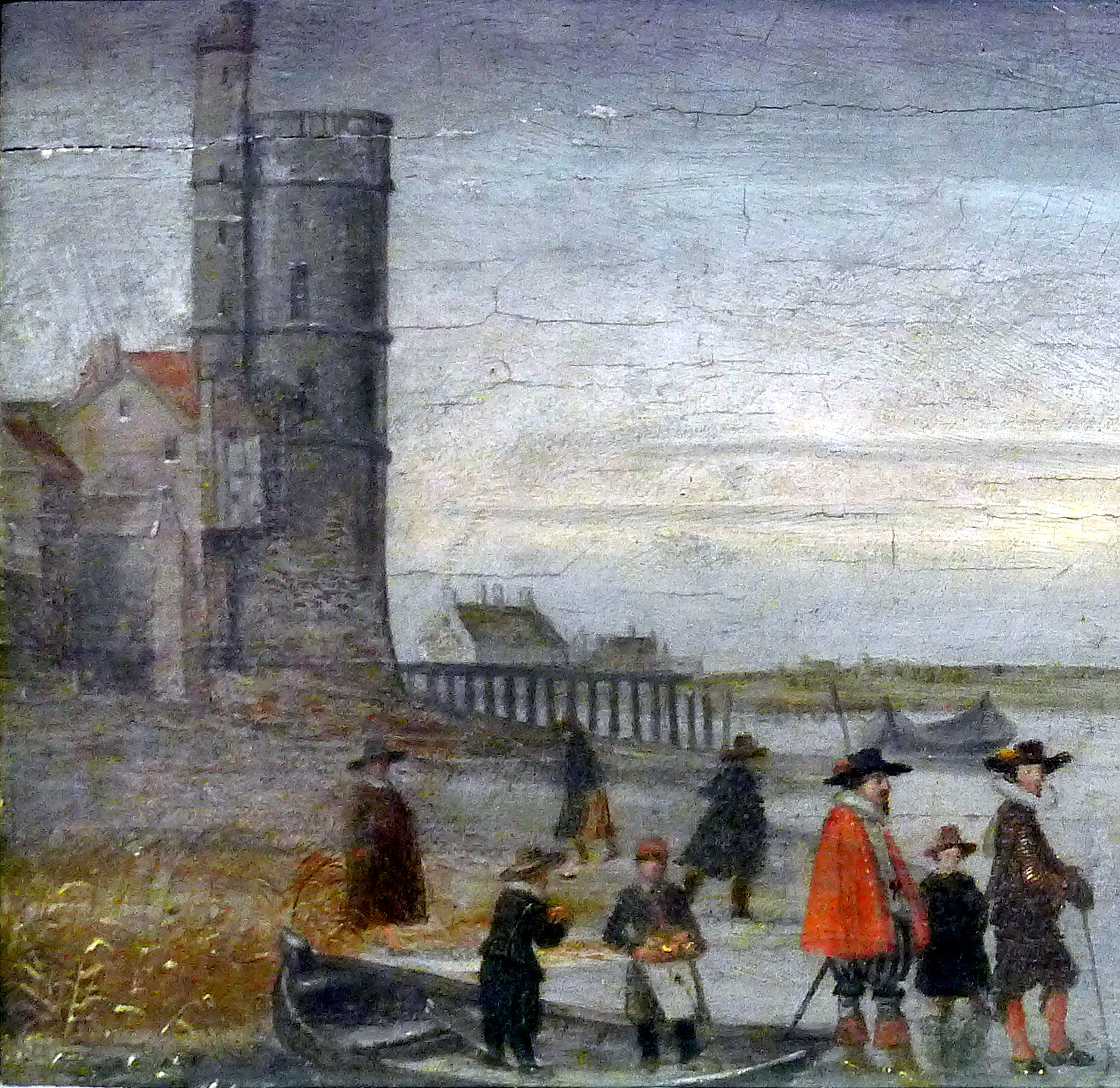 Detail from a painting depicting Parisian daily life during the winter of 1607–1608, during which the Seine was frozen over for several weeks. This left section of the painting shows the now-defunct Tour de Nesle, erected during the reign of Philippe Auguste.